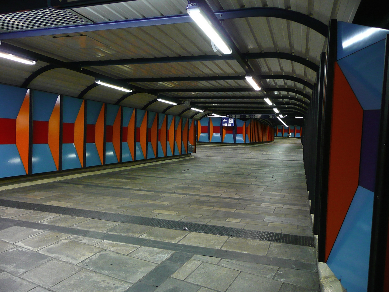 Stortinget Station of the Oslo Metro